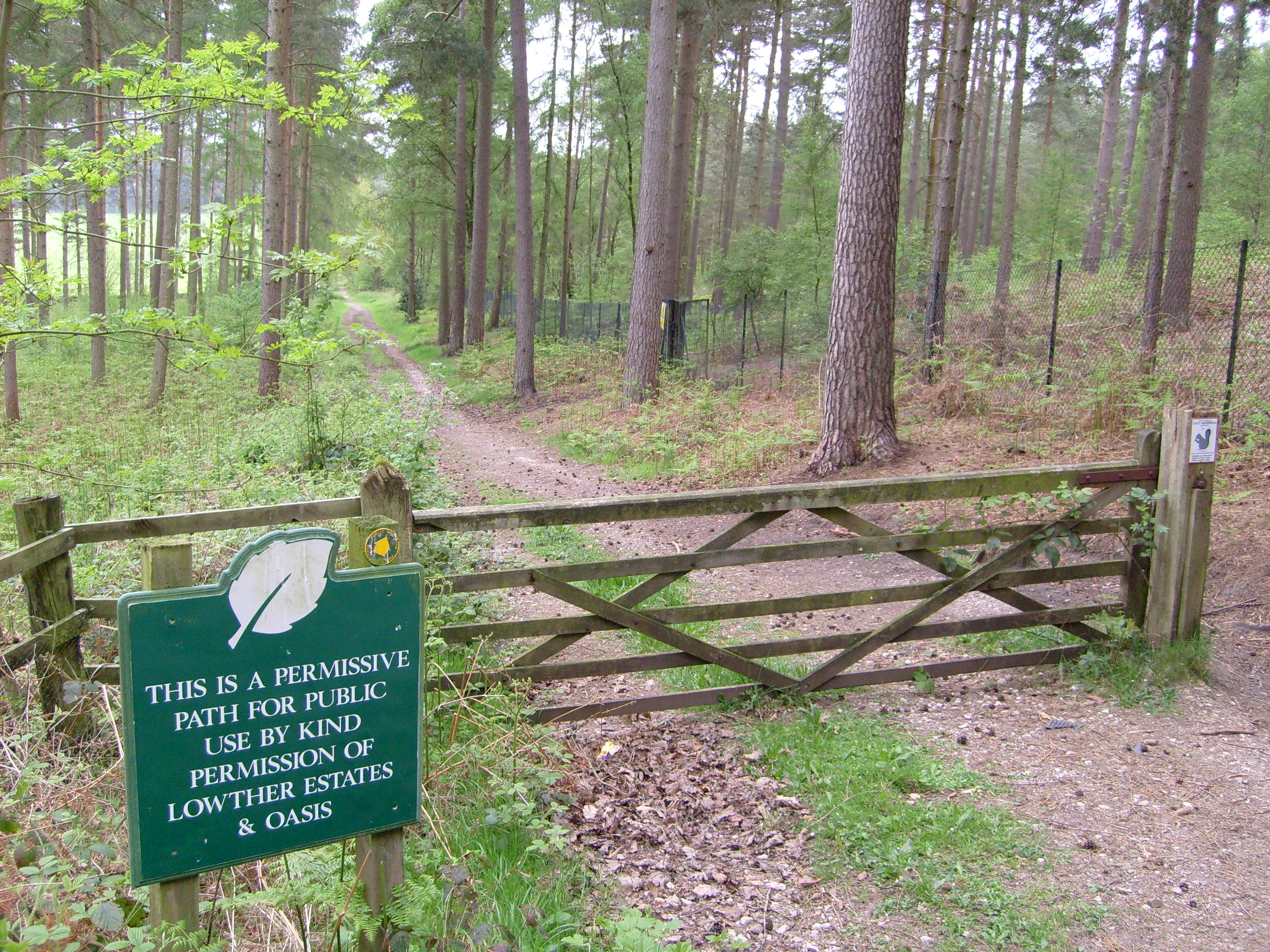 Sign on footpath in Whinfell Forest